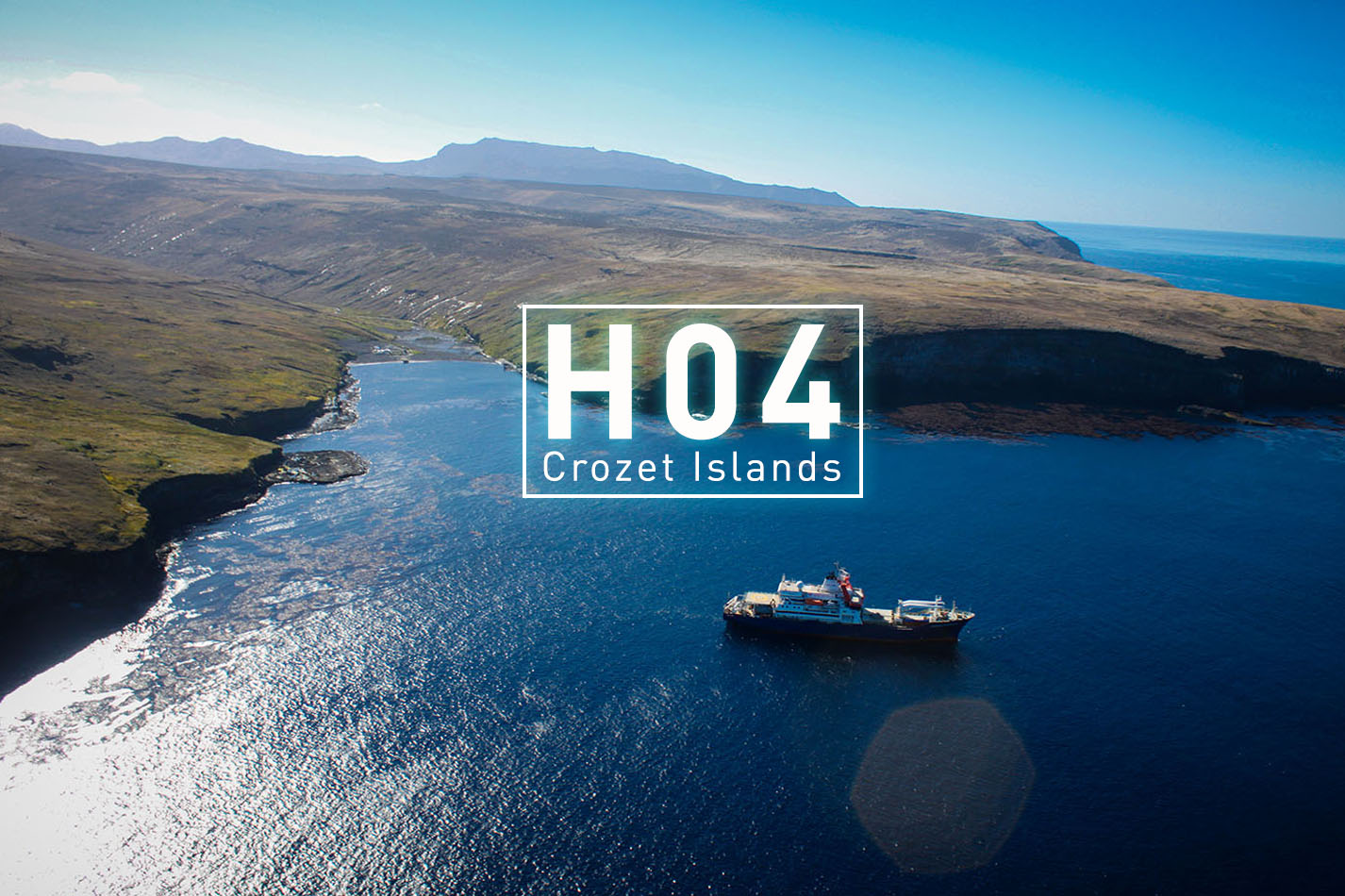 The last IMS hydroacoustic station: HA04, Crozet Islands (France)